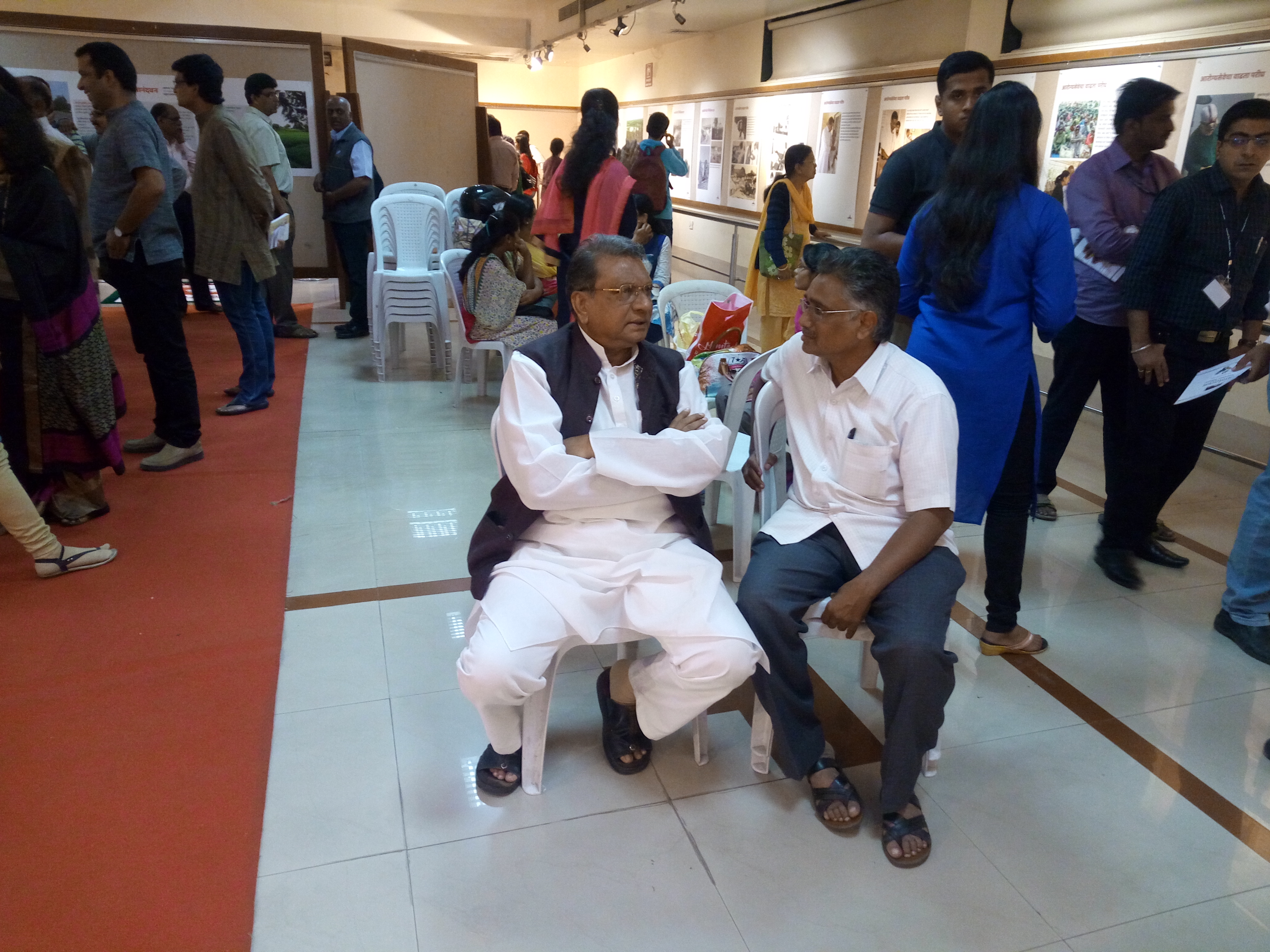 Dr. Vikas Amte and Prof. Narendra Naidu at the exhibition of Anandwan in Pune on 11th November 2016